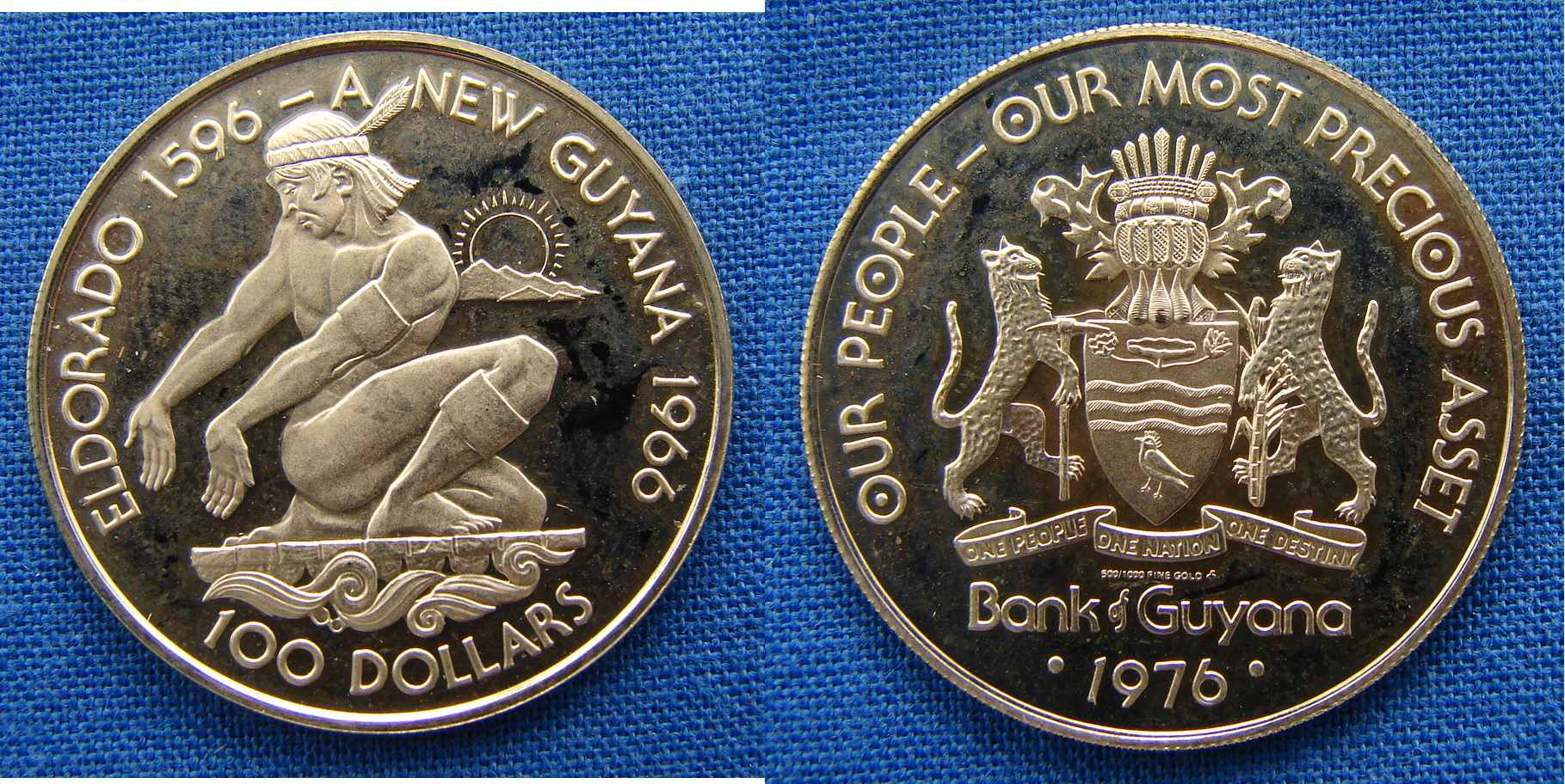 Former British Guiana in South America. 10 Years of Independence. Arawak Red Indian l., surrounding : "ELDORADO 1596 - A NEW GUYANA 1966 100 DOLLARS"/ Arms, surrounding : "OUR PEOPLE - OUR MOST PRECIOUS ASSET Bank Guyana date". KM 46. Weight 5.74 g Au 500. In 1595 Sir Walter Raleigh 1554 - 1618 "discovered" Guyana for England under Queen Elisabeth I on his search for Eldorado (Spanish EL Dorado) a city of gold in the interior of South America. In 1596 he published a book in England about this voyage. Condition : Proof 63